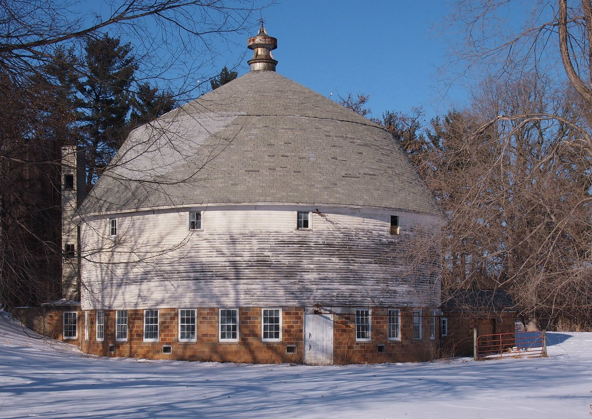 Sparre Barn, 20071 Nowthen Blvd, Nowthen, Minnesota, USA. Viewed from the south-southwest.